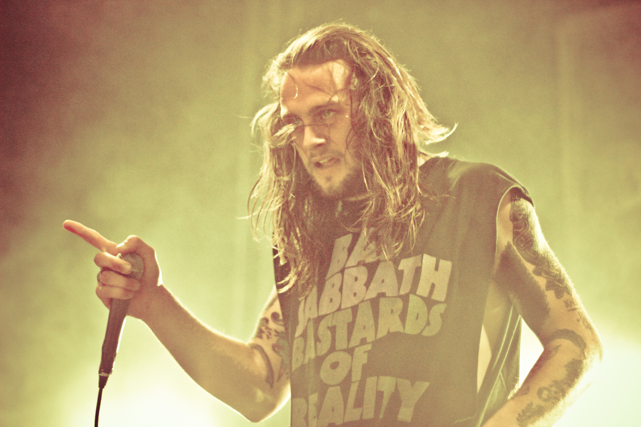 While She Sleeps vocalist Lawrence Taylor performing at Slam Dunk Festival - South in Hatfield, England on May 27, 2012.